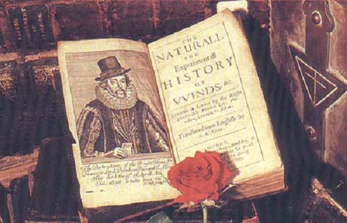 Sylva Sylvarum and a rose